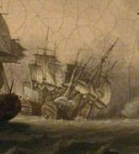 The French ship of the line the Superbe sinking in the Battle of Quiberon, November 20, 1759.